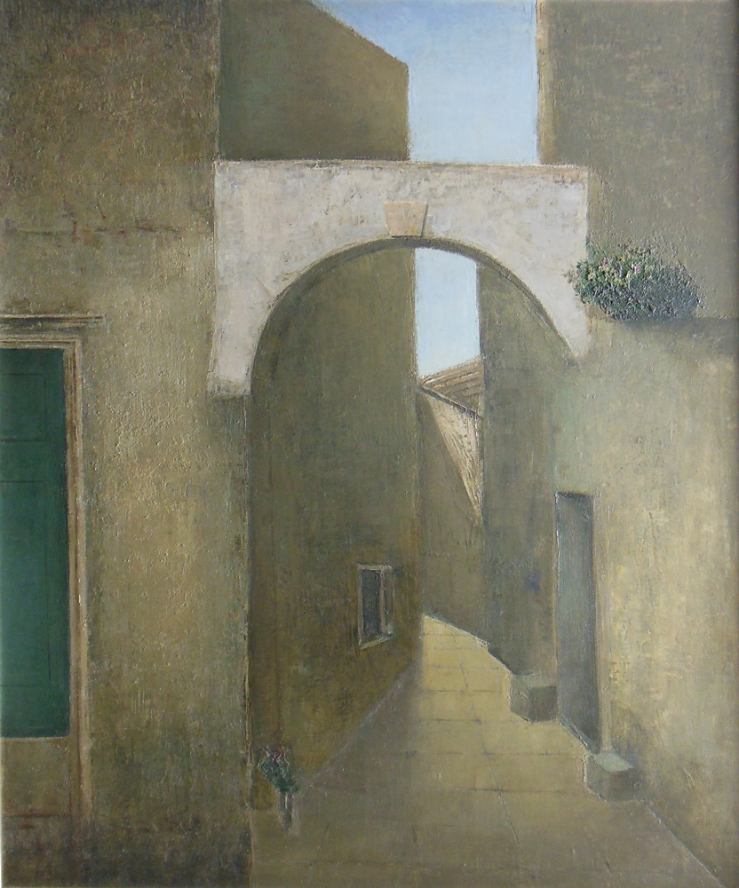 "Stone street", painting, oil on canvas, 1982. Zoran Rajković (1949). Painter from Serbia